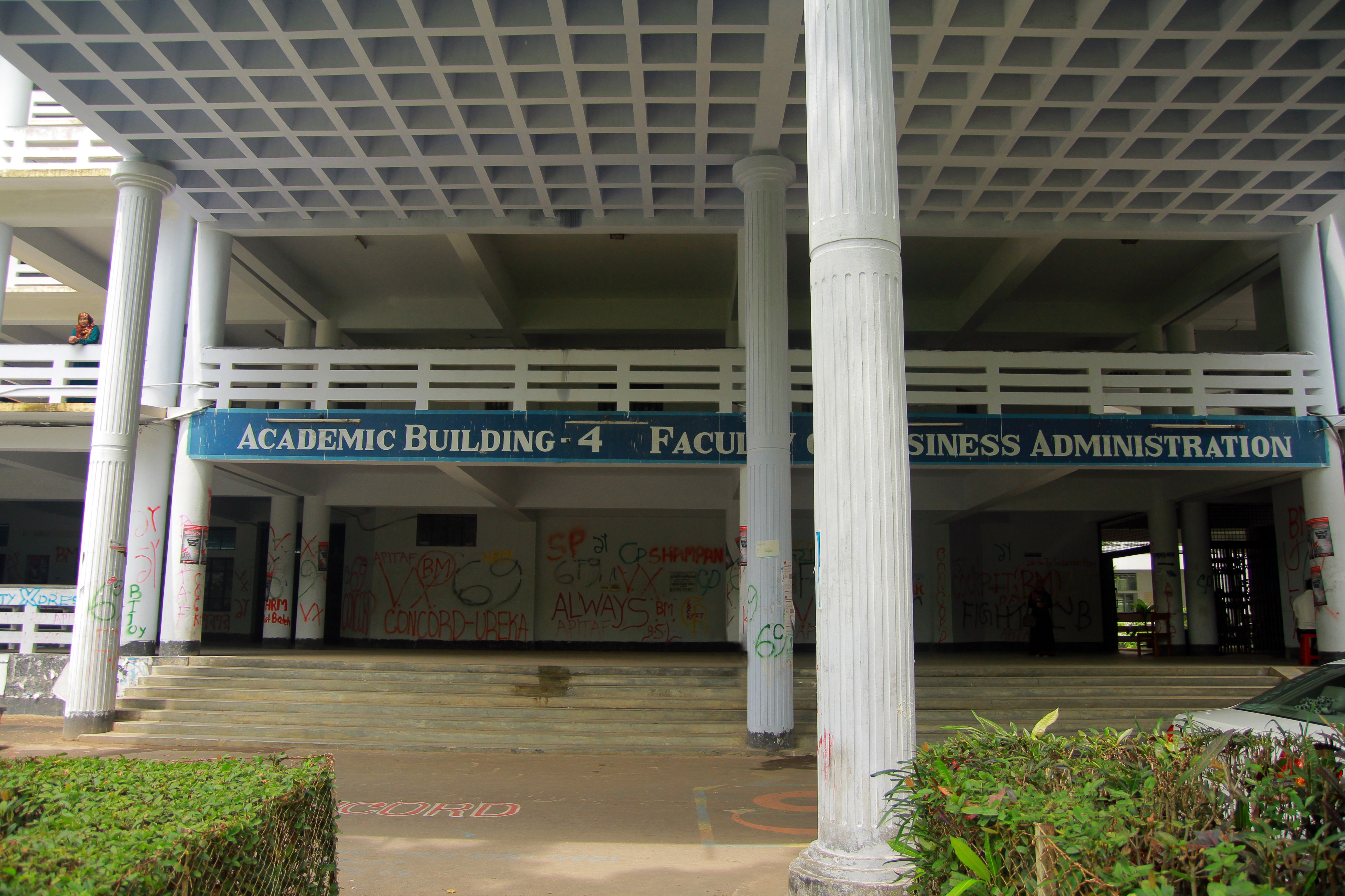 Faculty of Business Administration at University of Chittagong